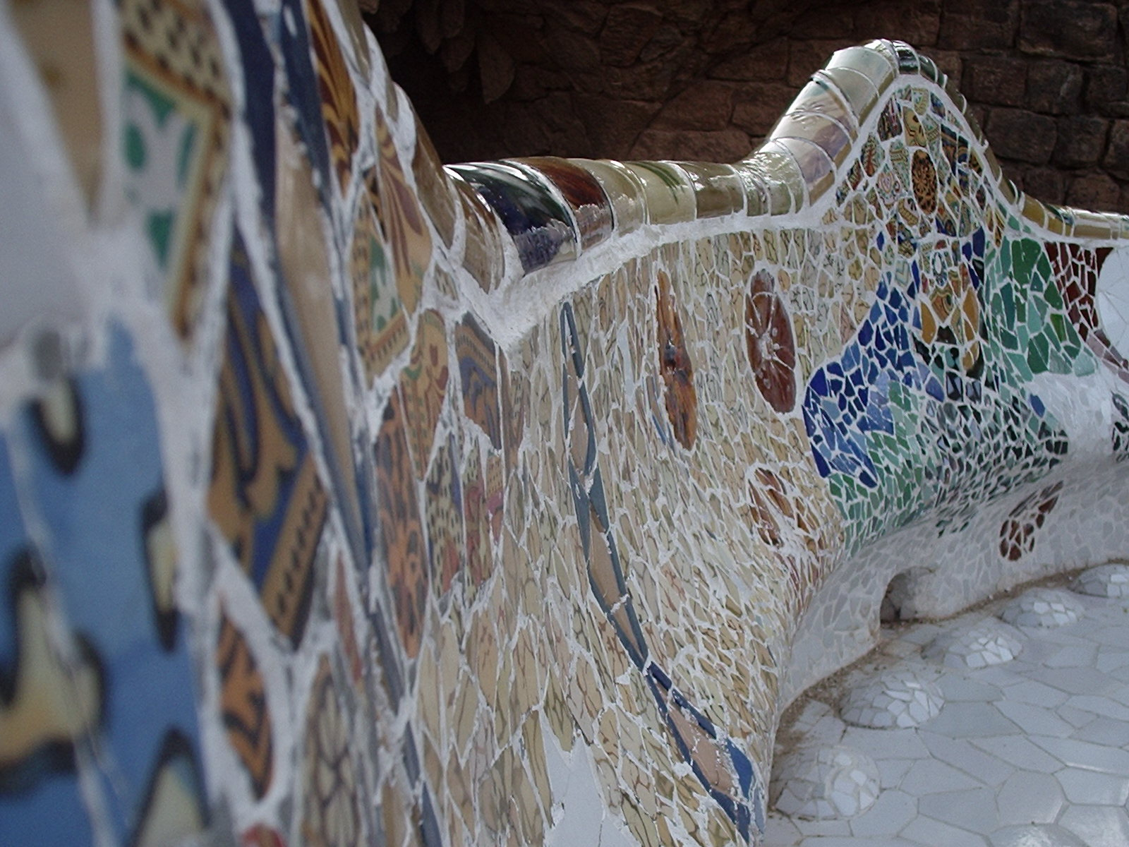 Detail of balcony's bench at Parc Güell